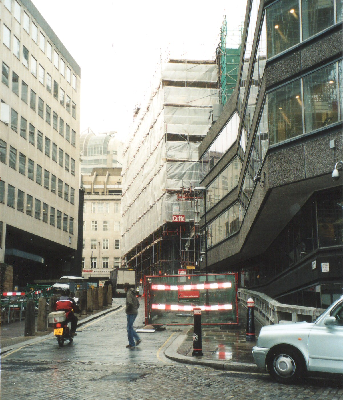 Pudding Lane, looking north from Monument Street junction